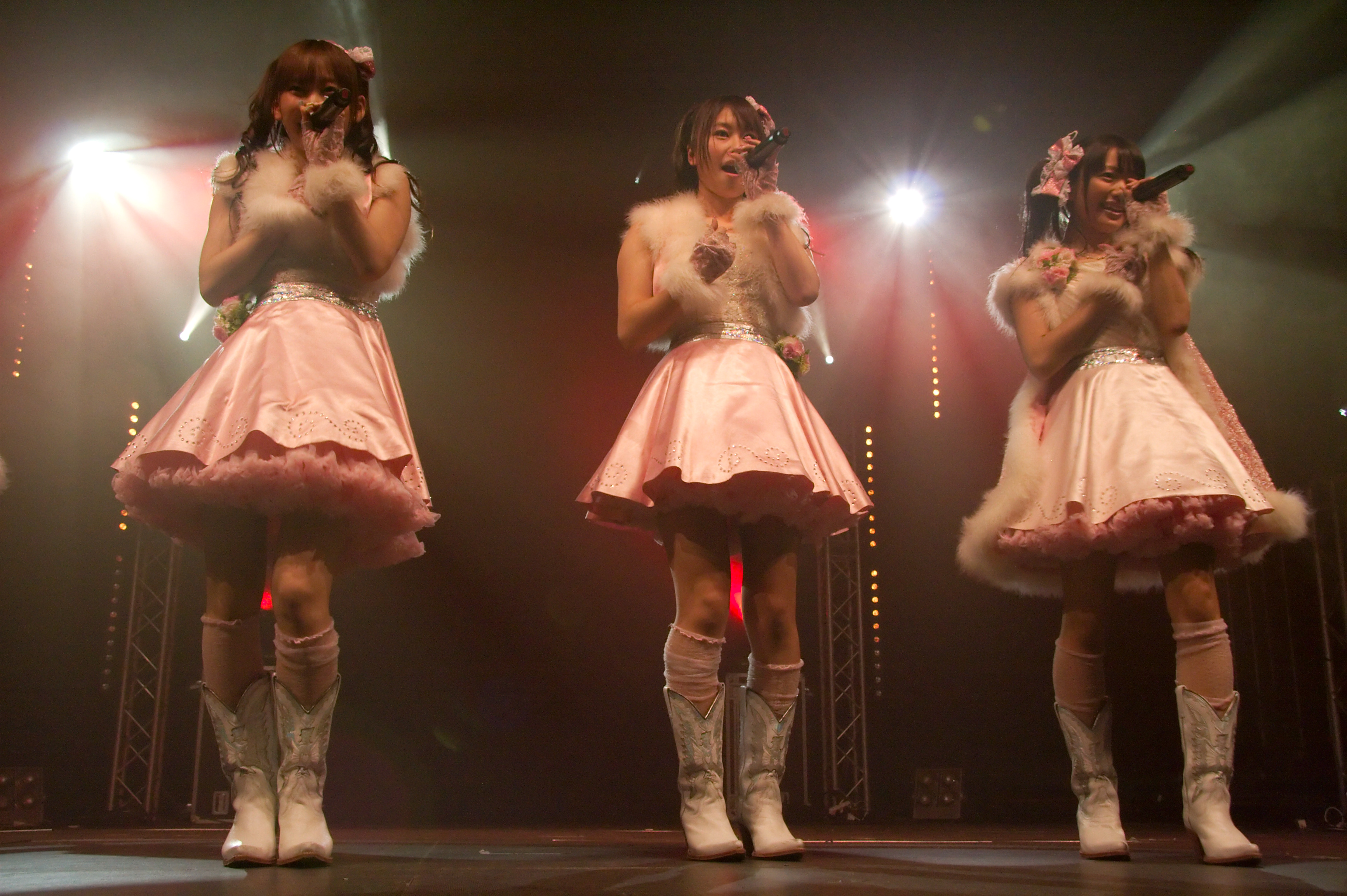 AKB48 live at Japan Expo 2009 (Paris, France).